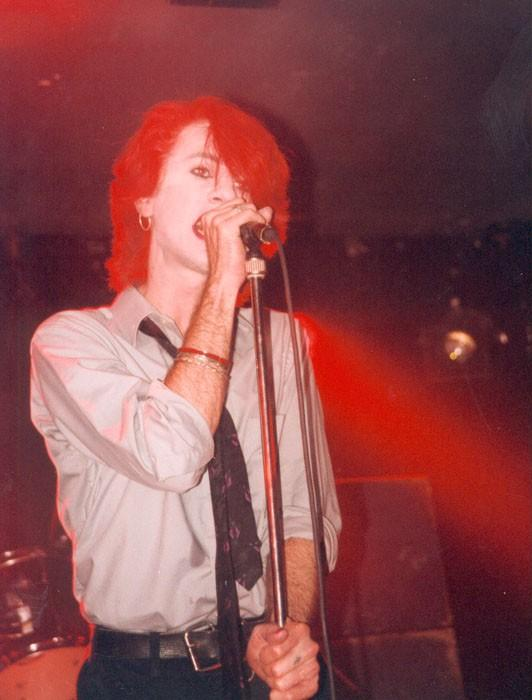 Rozz at Daucus Karota concert